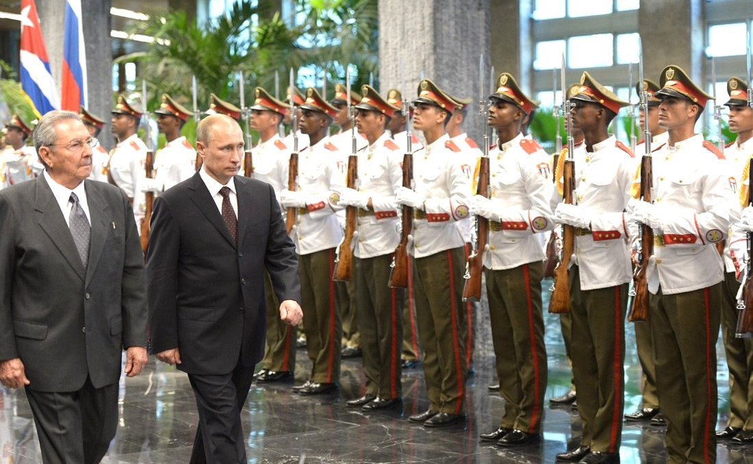 HAVANA. Official welcoming ceremony.